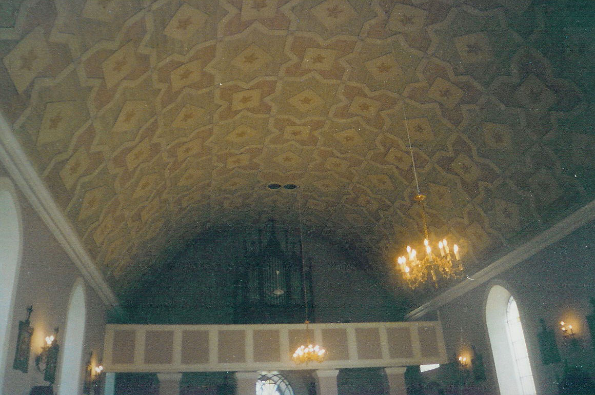 The wooden coffered ceiling vault in the church in Lachowo